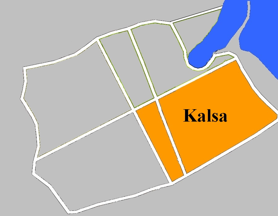 map o Kalsa